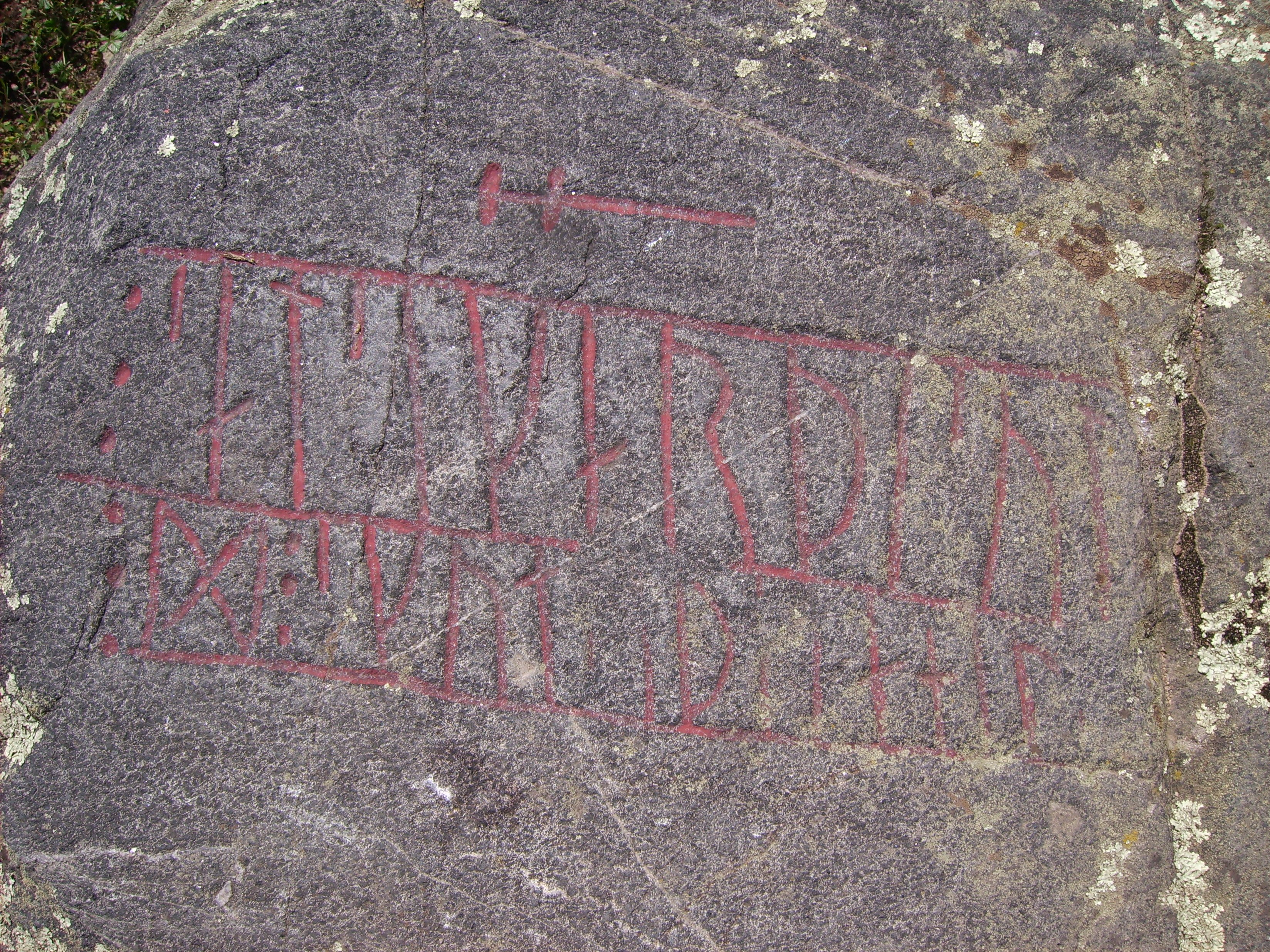 Runestone in Ingelsta in the parish Östra Eneby, Norrköping, from the 1000th century, the Swedish text in the rock: “Salse gjorde solen. Dag högg detta i hällen.” (Salse made the sun. Dag hewed that on the rock.). The visitor also will find a sword, sun and cross on the rock.